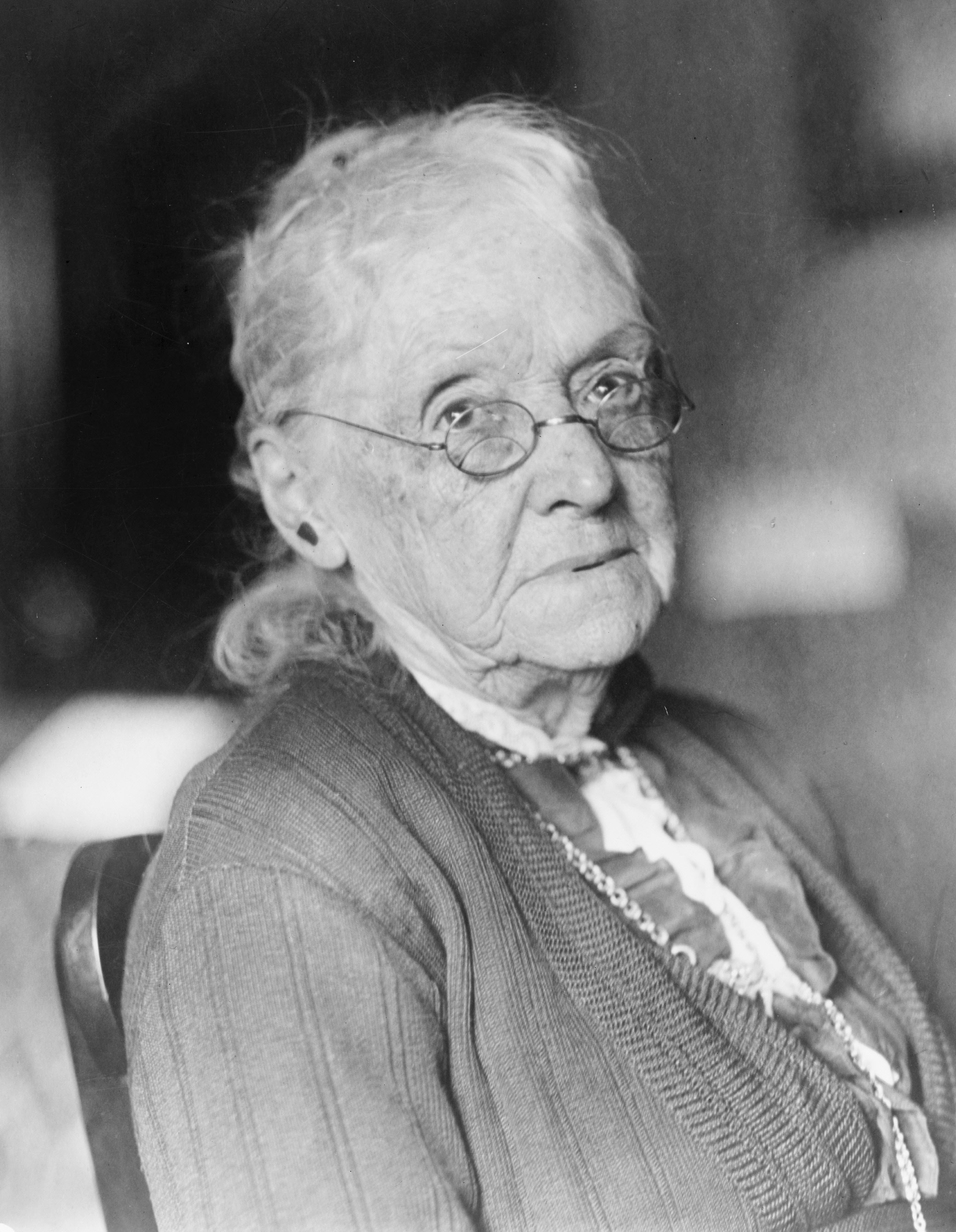 Mrs. Rebecca Latimer Felton, briefly United States Senator from Georgia.